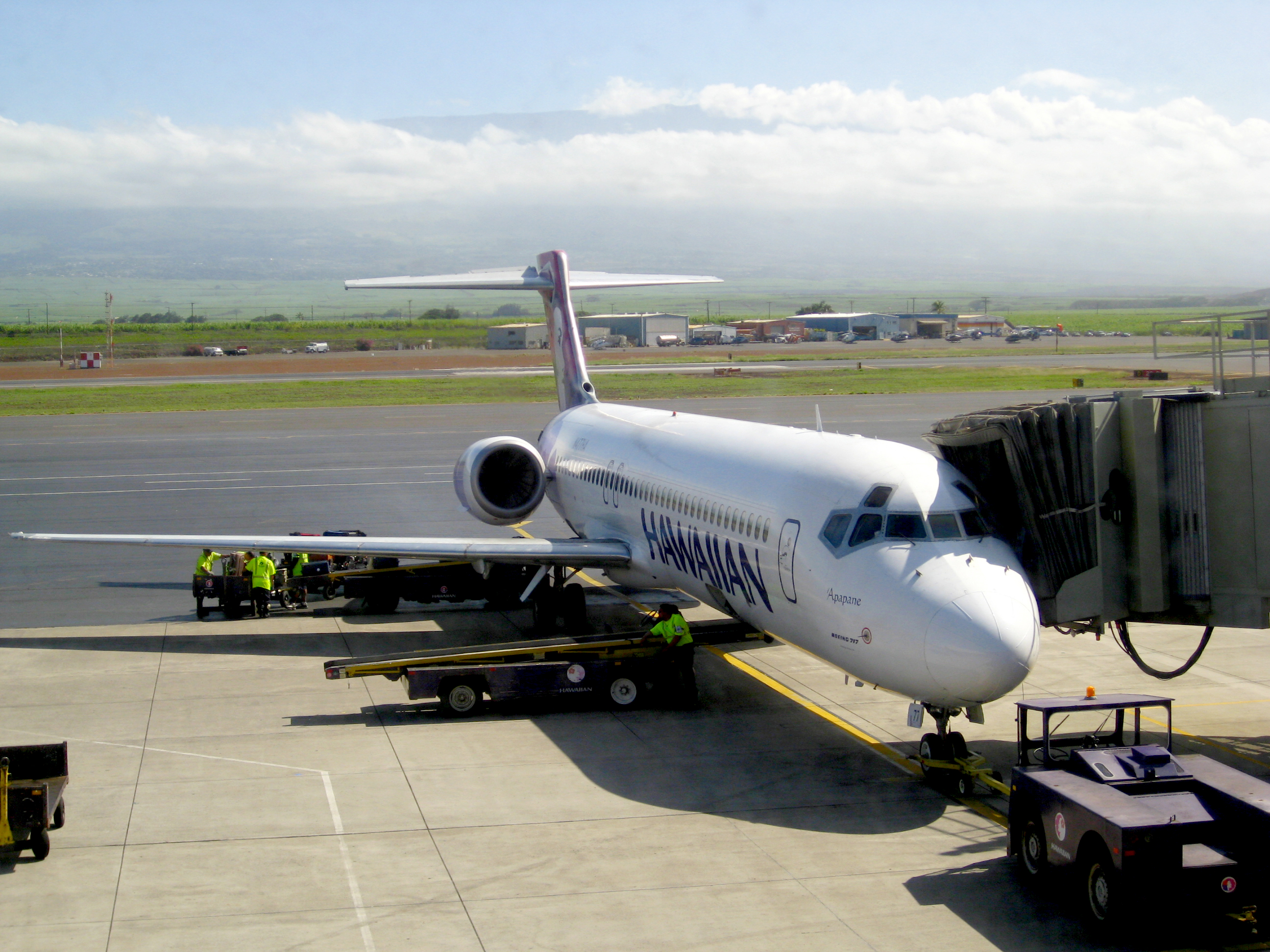 Hawaiian Airlines Boeing 717-200 at Kahului Airport (OGG) on Maui in December 2009.